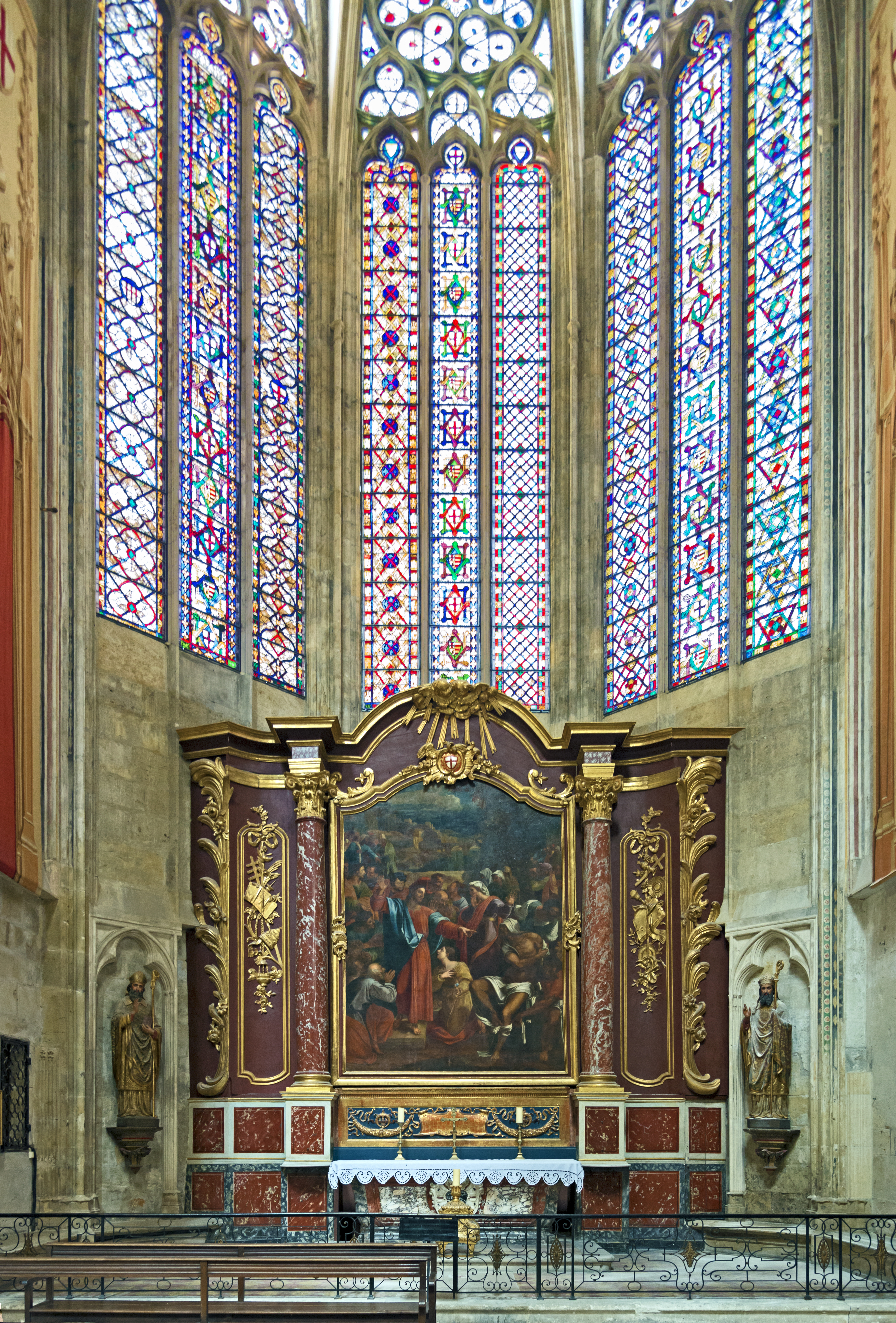 St. Martin chapel in Cathedral Saint-Just-et-Saint-Pasteur of Narbonne. Relics of St. Martin left of the altar. In the center of the altarpiece a picture of Charles André van Loo "The Raising of Lazarus"; copy of the picture of Sebastian del Piombo commissioned by Cardinal Giulio de Medici, Archbishop of Narbonne became pope under the name of Clement VII. From either side of the altar statue of St. Augustine and St. Ambrose. In the center before the altar burial of Arthur Richard Dillon.